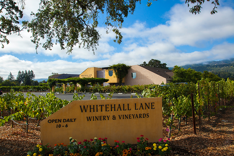 Exterior photo of Whitehall Lane Winery in Napa Vallay, CA.